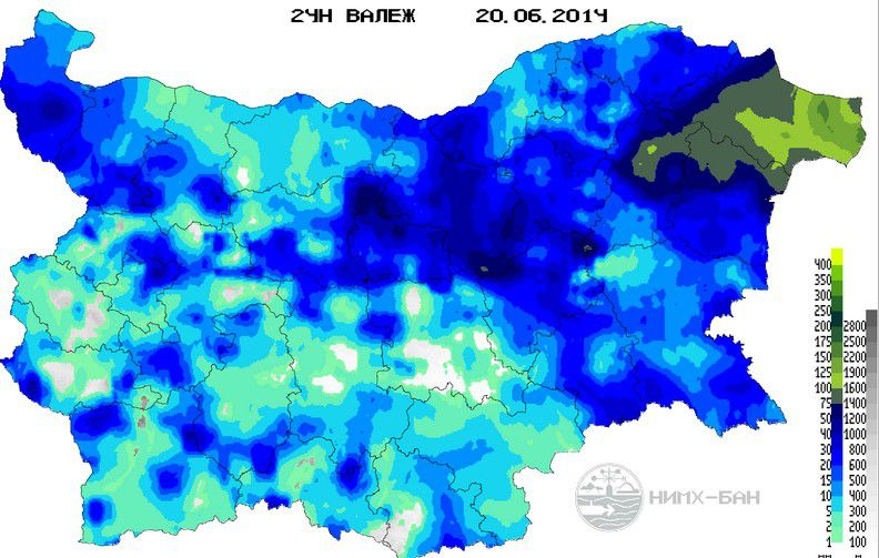 The 24-hour rainfall totals in Bulgaria for the 19 of June, 2014. Image produced by the Bulgarian National Weather Forecasting Service (NIMH).